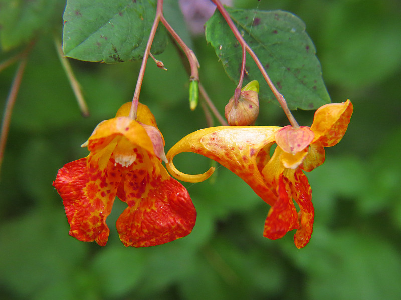 Impatiens capensis (Balsaminaceae) (Orange Balsam) - (flowering), Culemborg - Goilberdingerwaard, the Netherlands